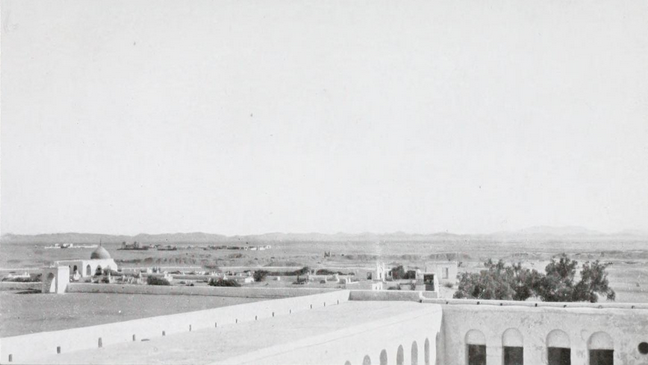 Tomb of Eve, photo found in The Heart of Arabia by H. St. John B. Philby, London 1922, p. 230-231